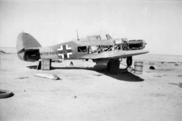 A Hawker Hurricane Mk.1 aircraft (RAF serial V7670) captured intact by the Germans in March 1941 and then recaptured at Gambut airfield later.